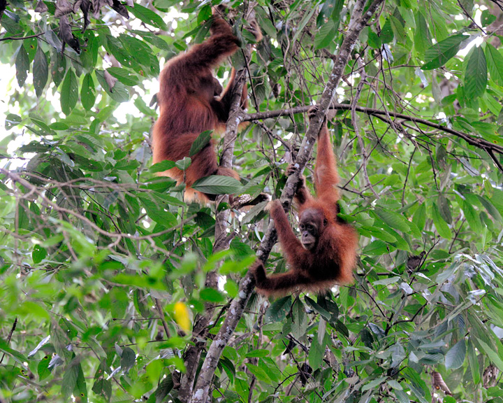 wild orang utans, Gunung Leuser NP, Sumatra